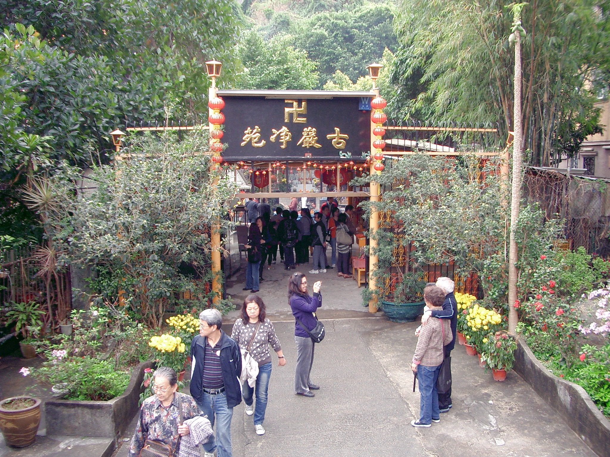 Koon Ngam Ching Yuen, Sha Tin, New Territories, Hong Kong 中文（香港）: 香港，新界，沙田，大圍，古巖淨苑。